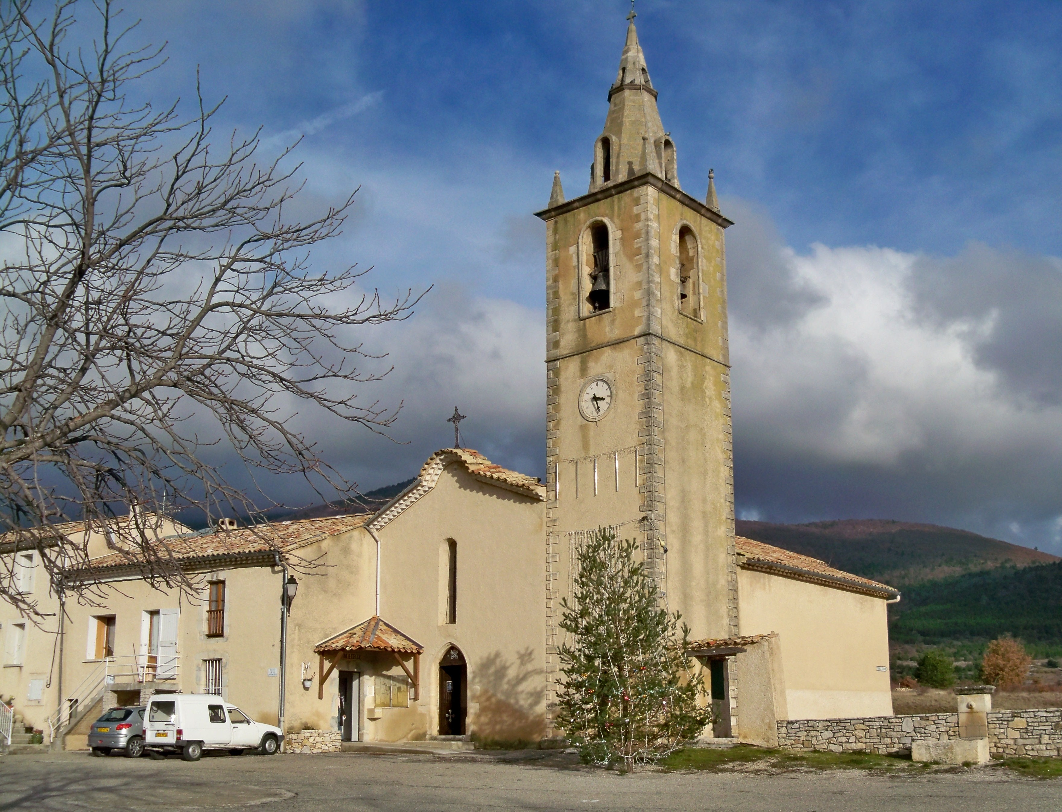 church in Saumane (Alpes de Haute Provence, France)